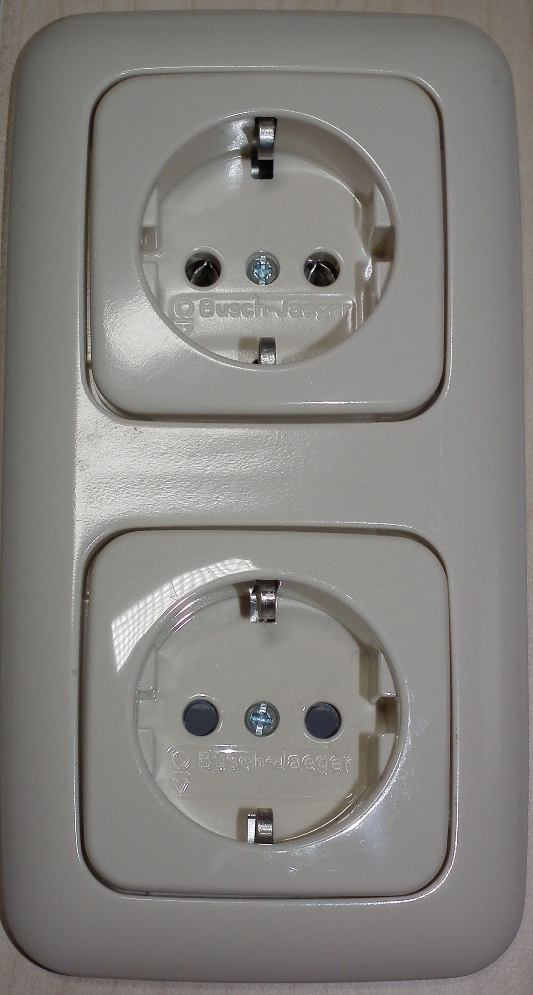 Photo of two Schuko (CEE 7-3) socket-outlets manufactured by Busch-Jaeger Elektro GmbH, one has protective shutters, the other does not.